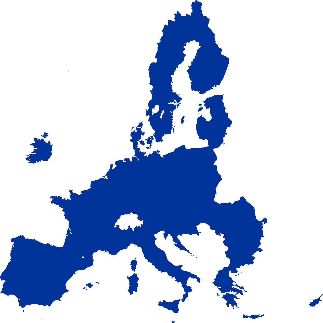 European Union